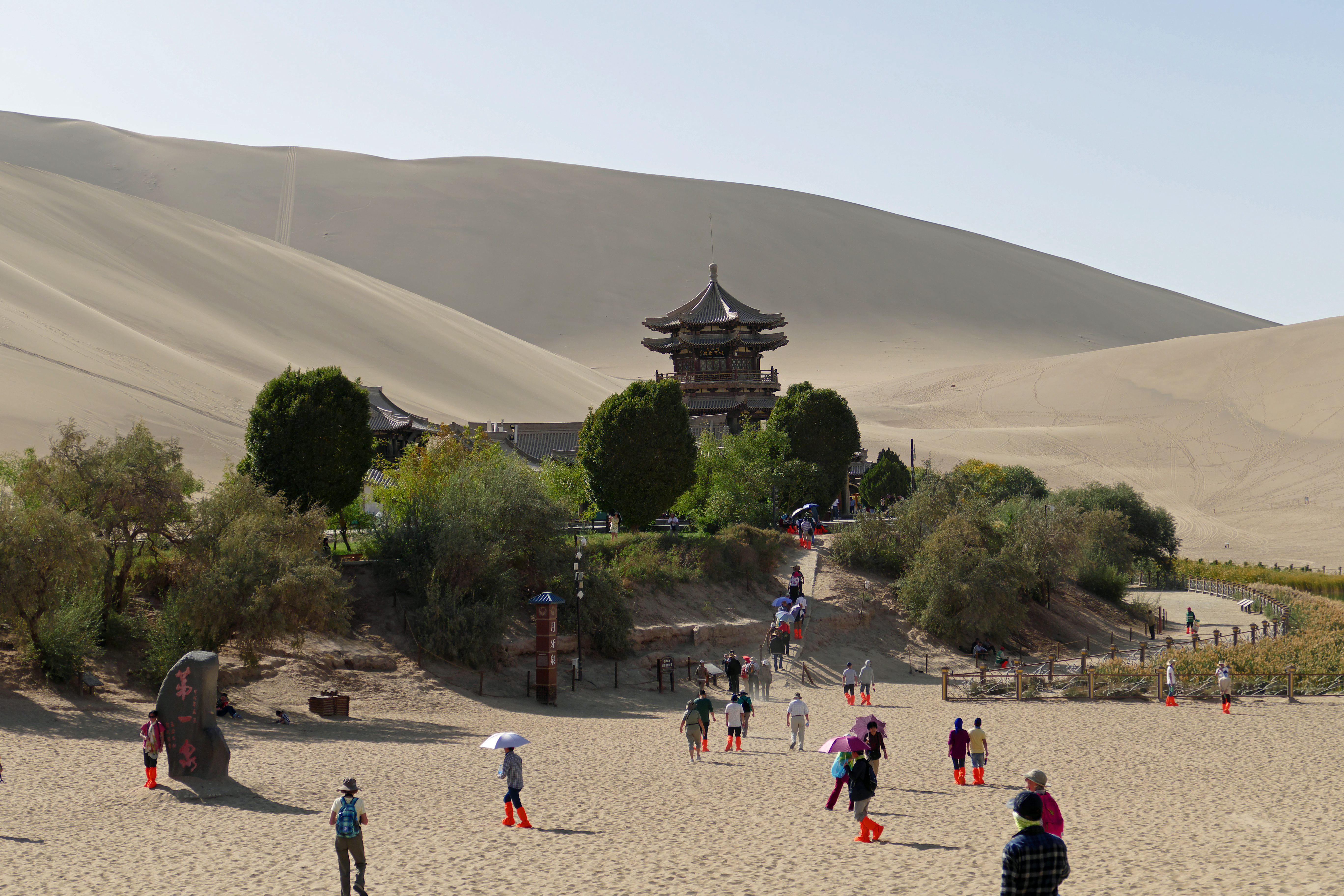 Pagoda at Crescent Lake